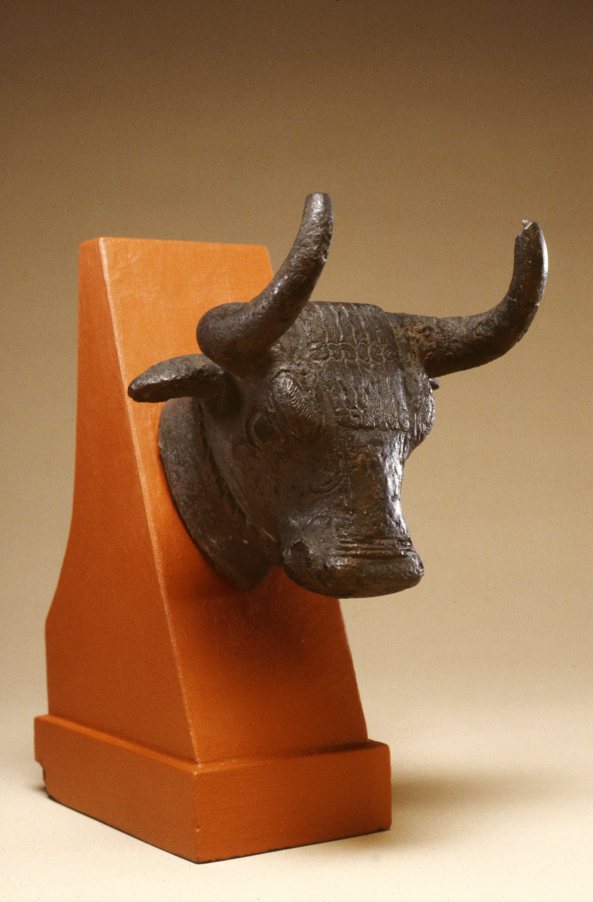 This head was attached to the rim of an enormous cauldron excavated at the Urartian fortress of Toprakkale. The facial markings are characteristic of Urartian art of this period.